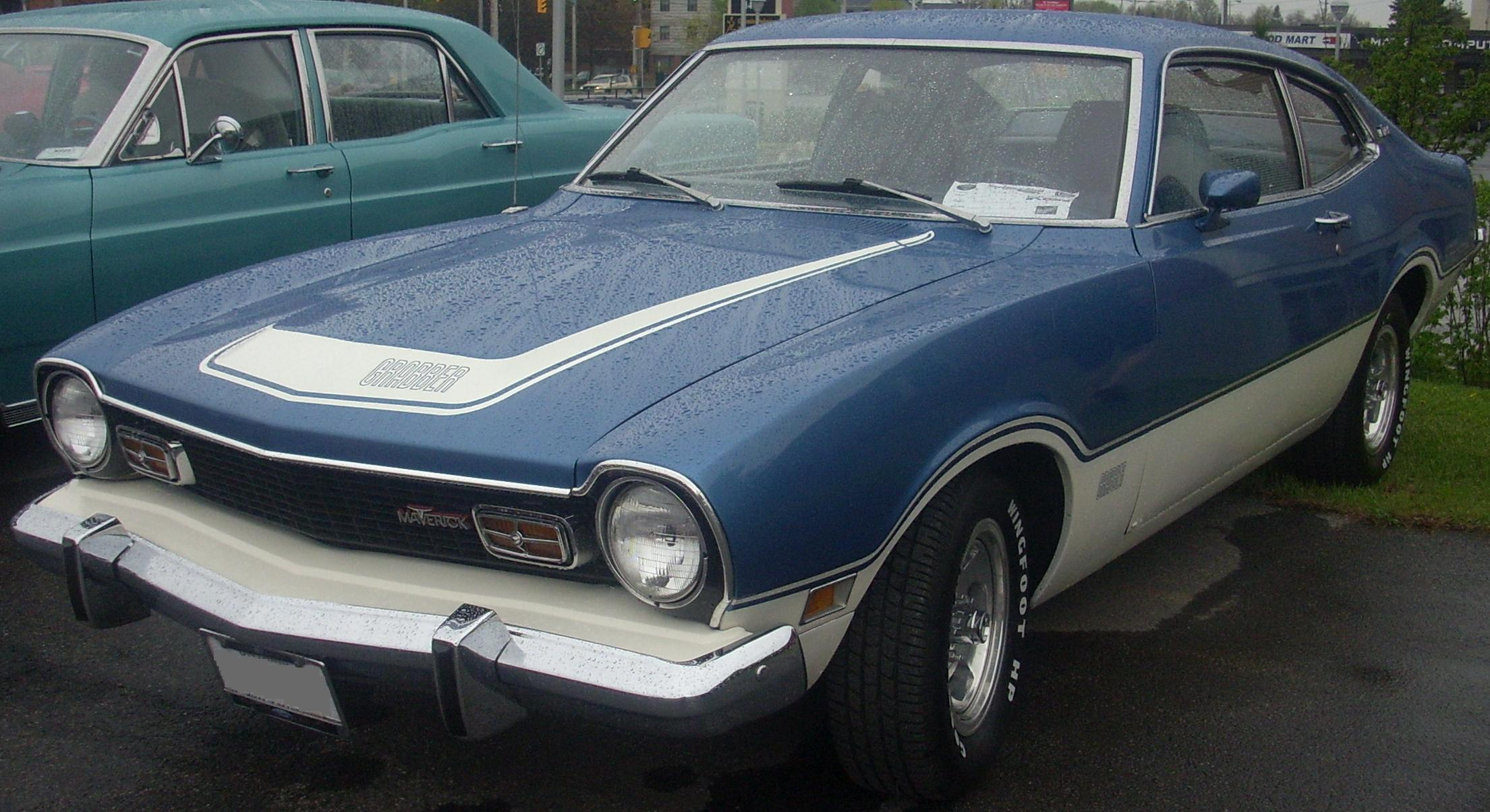 1973 Ford Maverick Grabber photographed at the 2009 Sterling Ford Ottawa Auto Show.